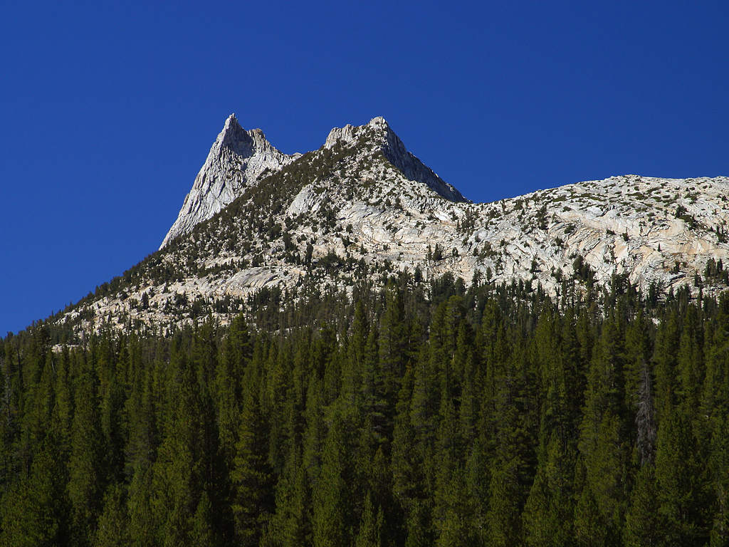 Cathedral Peak in Yosemite National Park